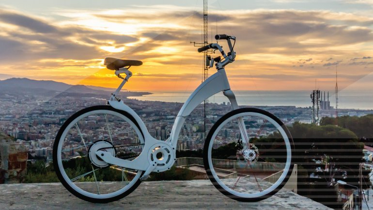 Ebike